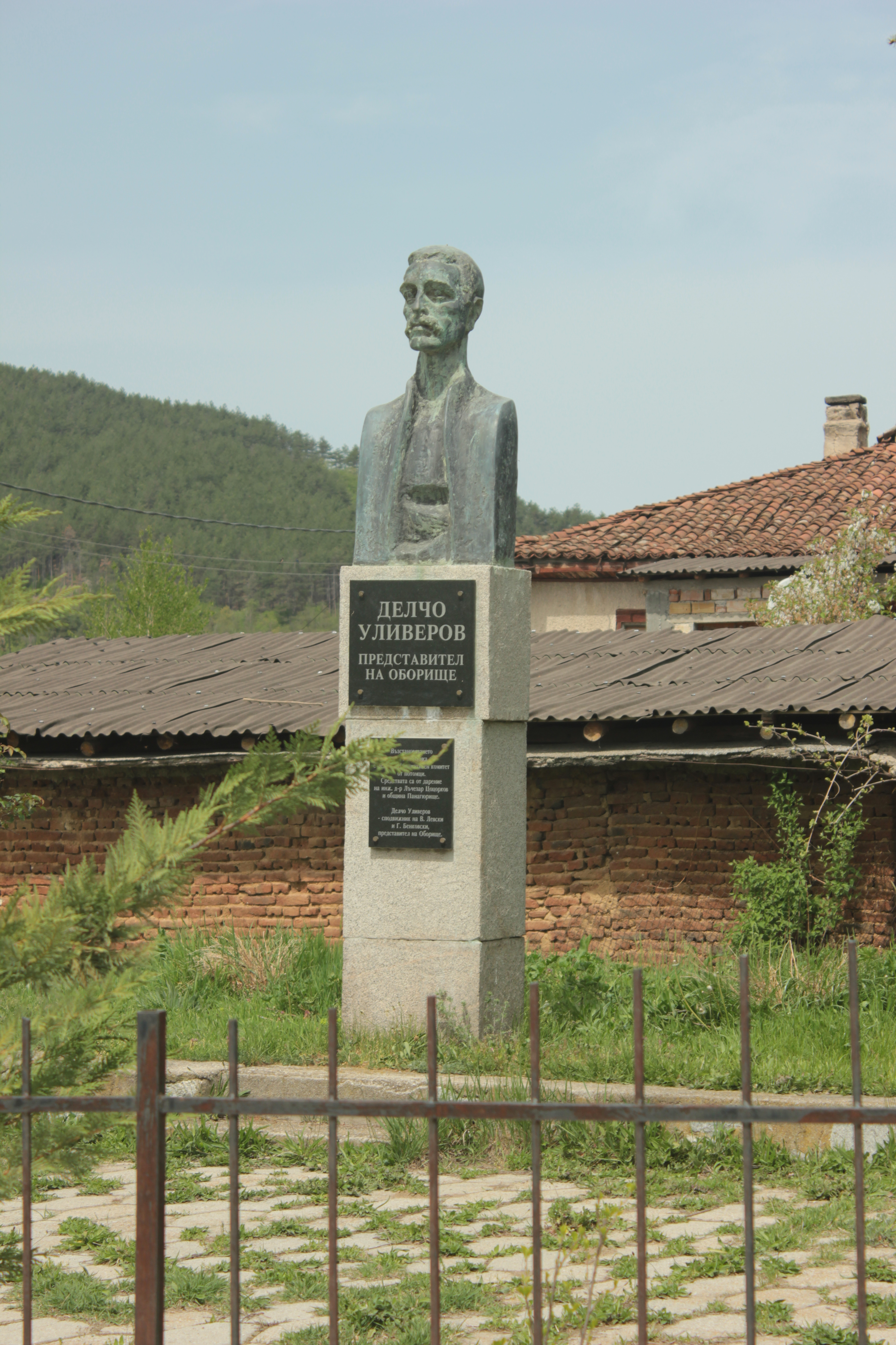 Delcho Oliverov monument in Poibrene